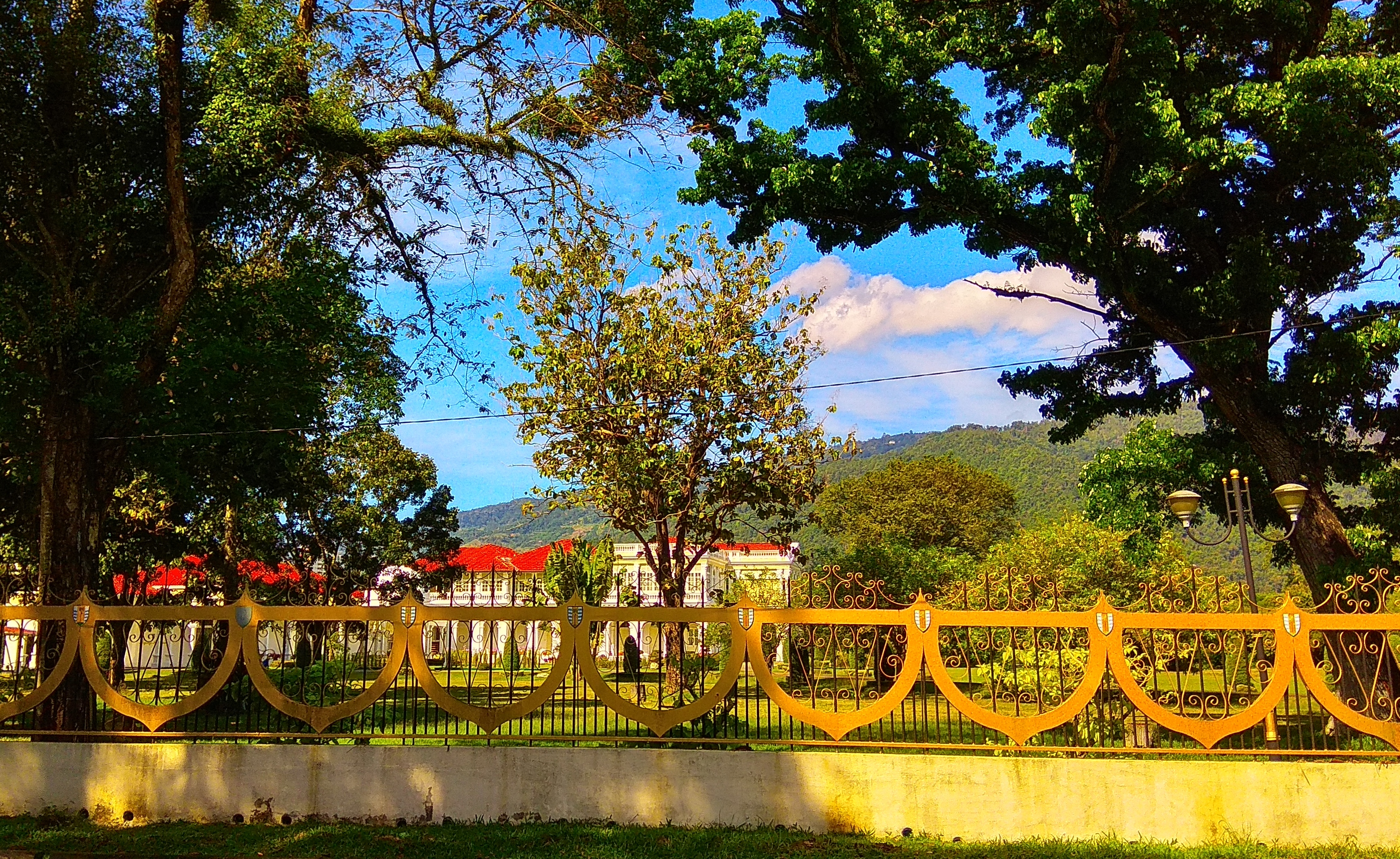 The Residency (Seri Mutiara) in the city of George Town in Penang, Malaysia, serves as the official residence of the Governor of Penang.